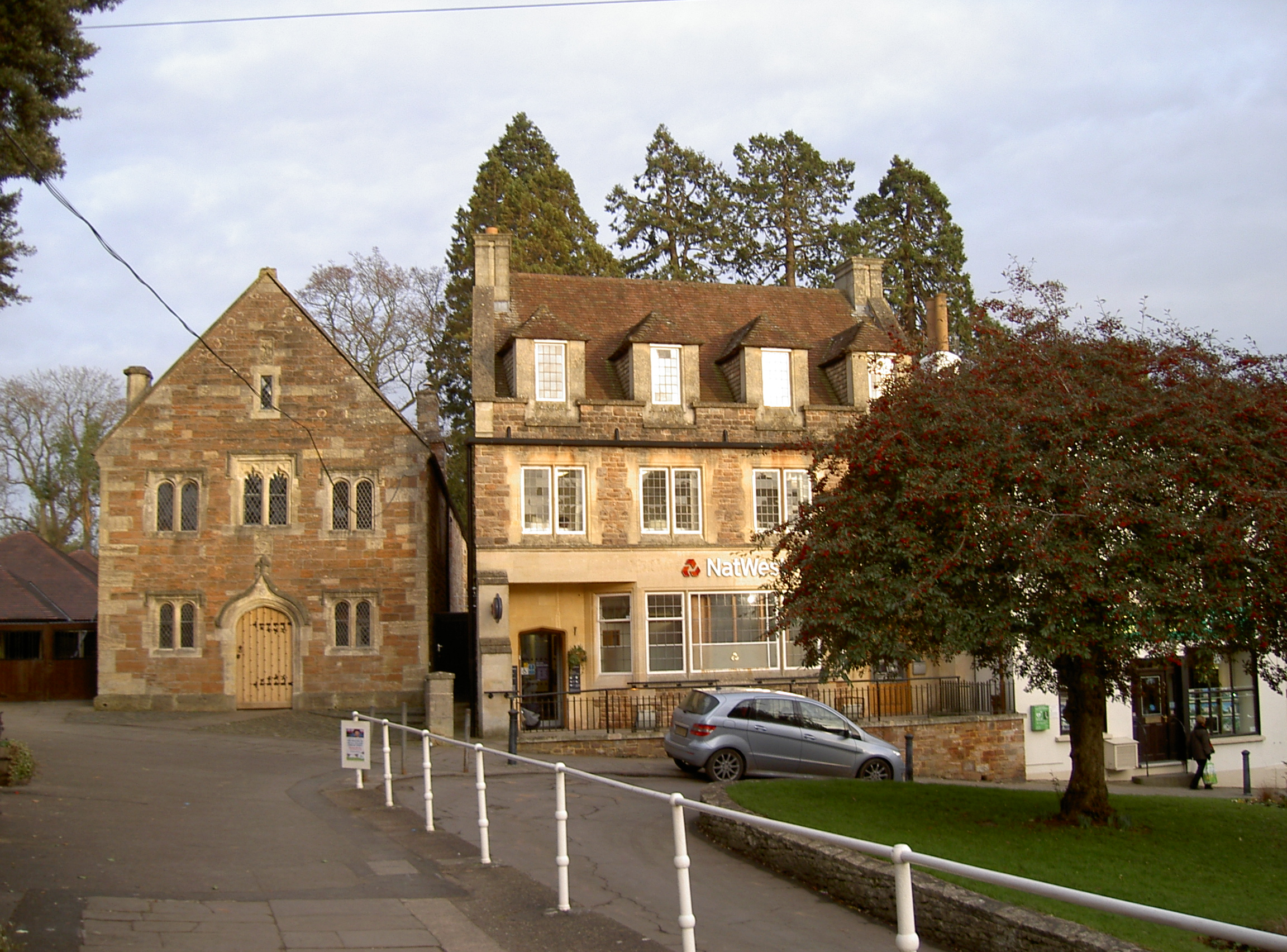 Small green